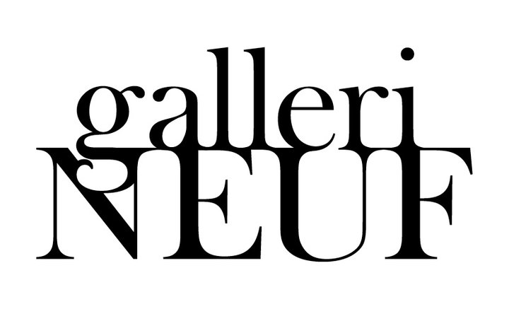 GalleriNeuf logo